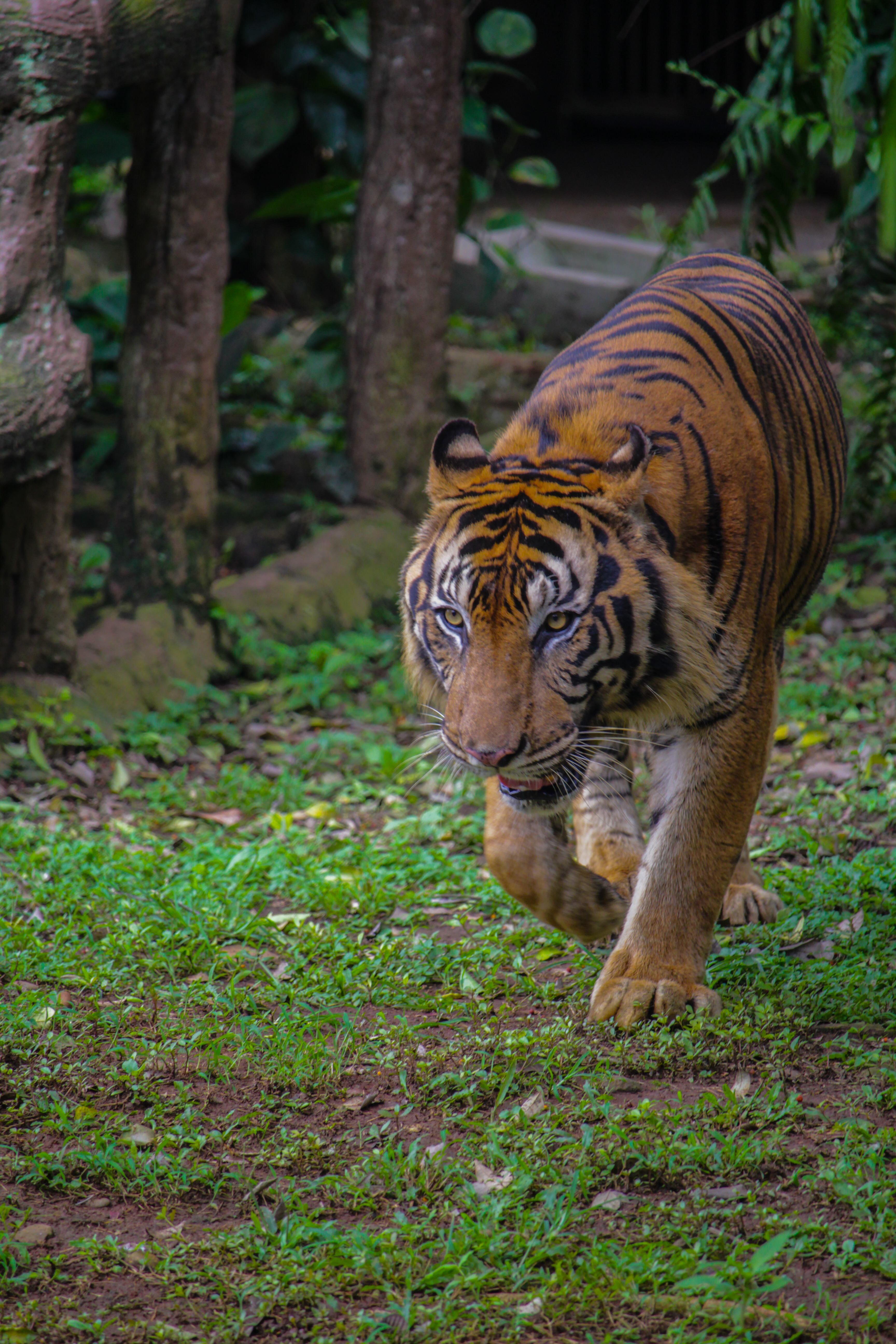 If you want to see Sumatran Tiger, please come to Ragunan Zoo, Jakarta